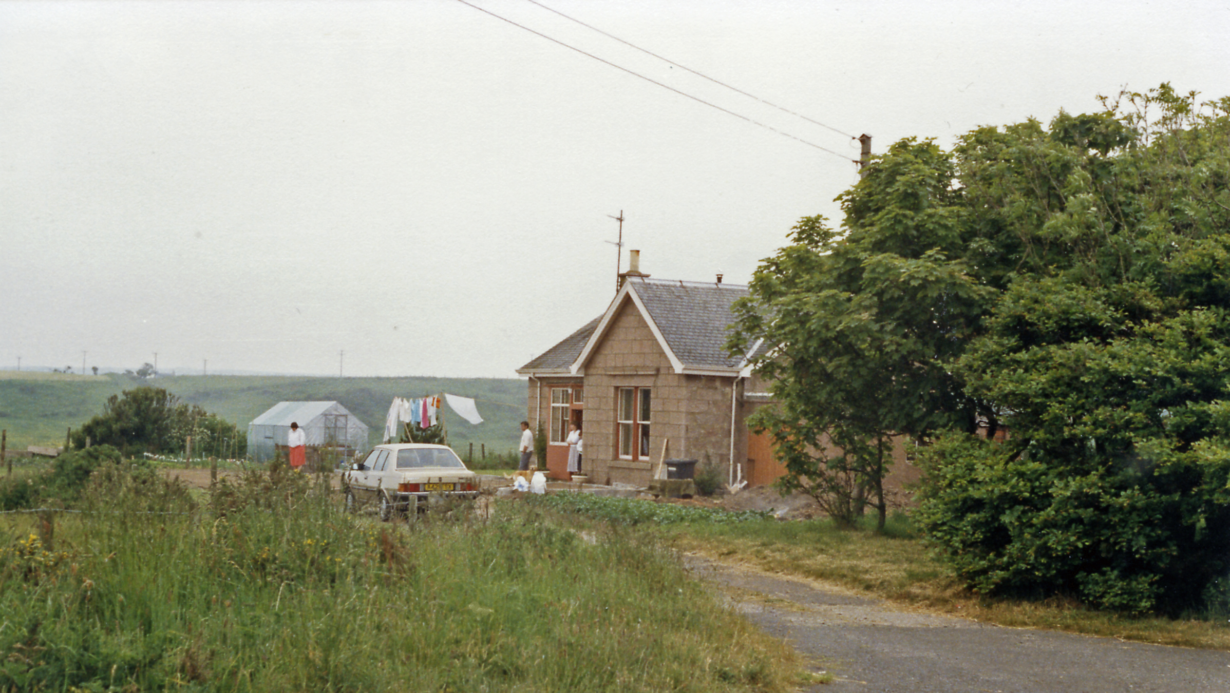 Cruden Bay station (remains), 1988. View westward, towards Ellon: ex-GNSR Ellon - Boddam branch, closed throughout to passengers from 31/10/32, to freight 7/11/45. Before World War Two an electric tramway used to run from the station to Cruden Bay Hotel, but the hotel and tramway, also the whole branch, were taken over by the Military in 1941.